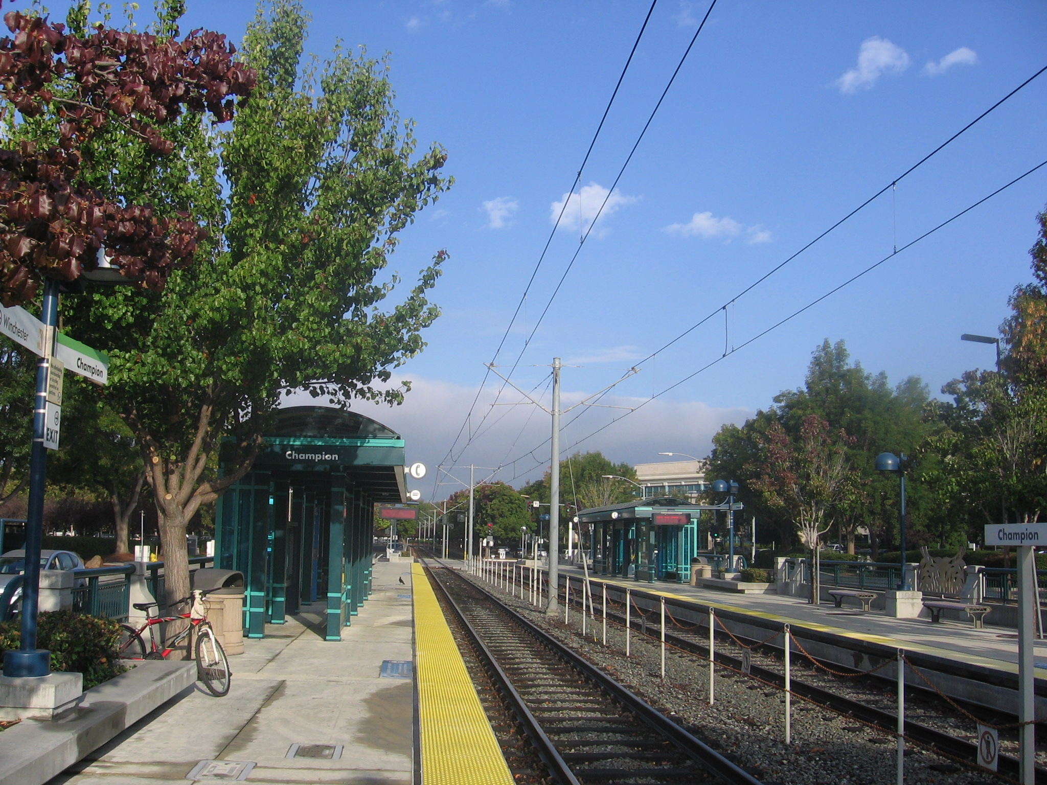 The Champion (VTA) light rail station on West Tasman Drive at Champion Court in San José, California, USA.